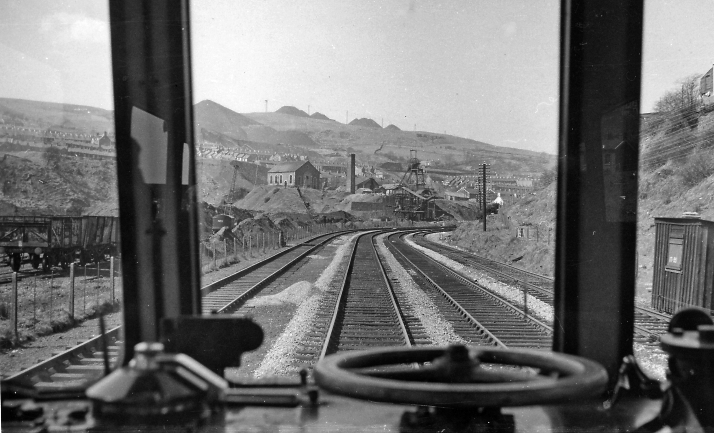 View from a DMU going up the Rhondda Valley near Ystrad. Typical colliery scene, with spoil-heaps right up the mountain. Note the four tracks, to accommodate all the coal traffic.